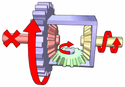 Illustration of a differential gear, made by Wapcaplet in Blender and finished in the GIMP.If the left side gear (red) encounters resistance, the pinion gear (green) rotates about the left side gear, in turn applying extra rotation to the right side gear (yellow).